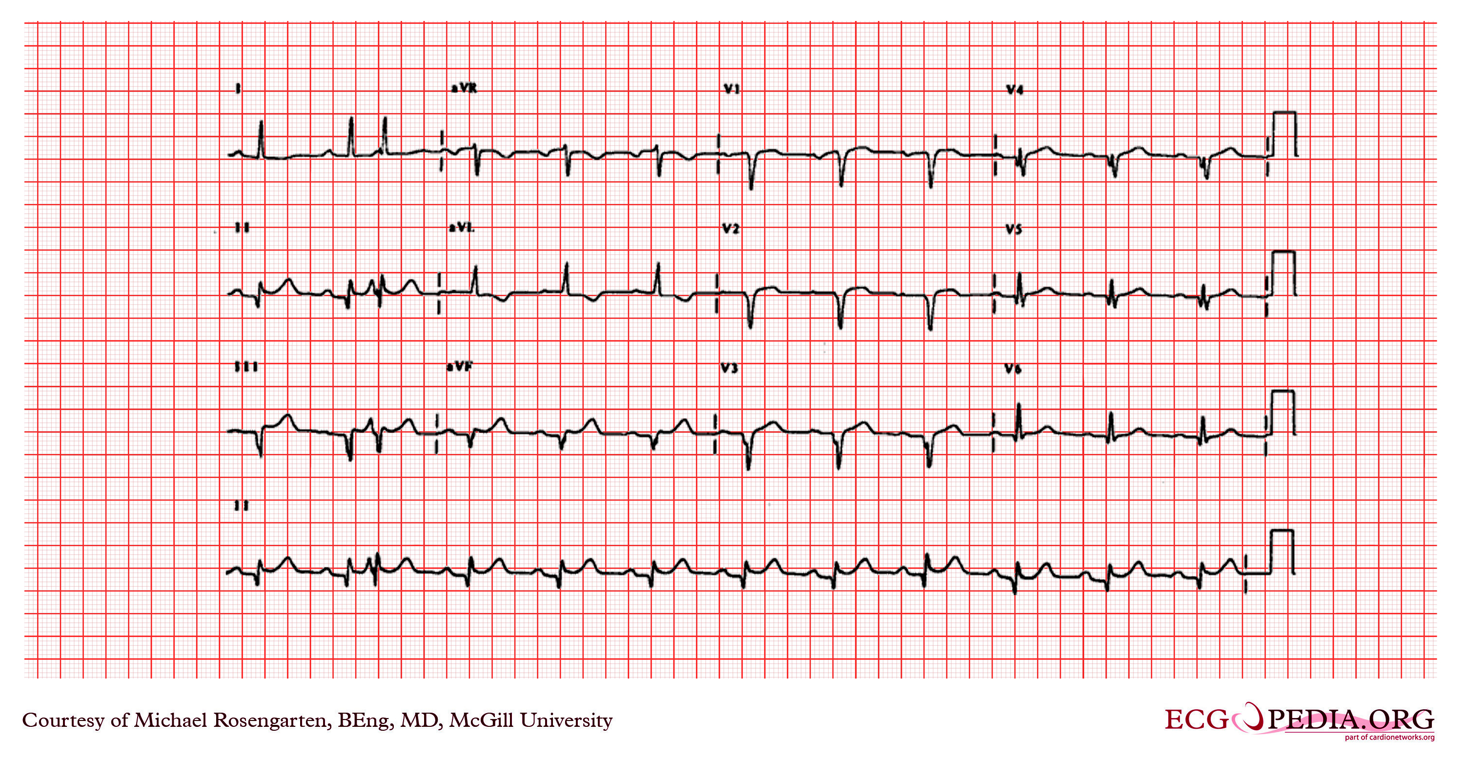 This recording seems to show an atrial premature beat (3rd beat). In fact note the QT interval of the second beat is short and in fact this was an artifact from a paper jam in the EKG recorder. The EKG also shows a first degree A/V block and abnormal Q waves in the inferior and anterior leads consistent with inferior and anterior myocardial infarctions which are probably old.